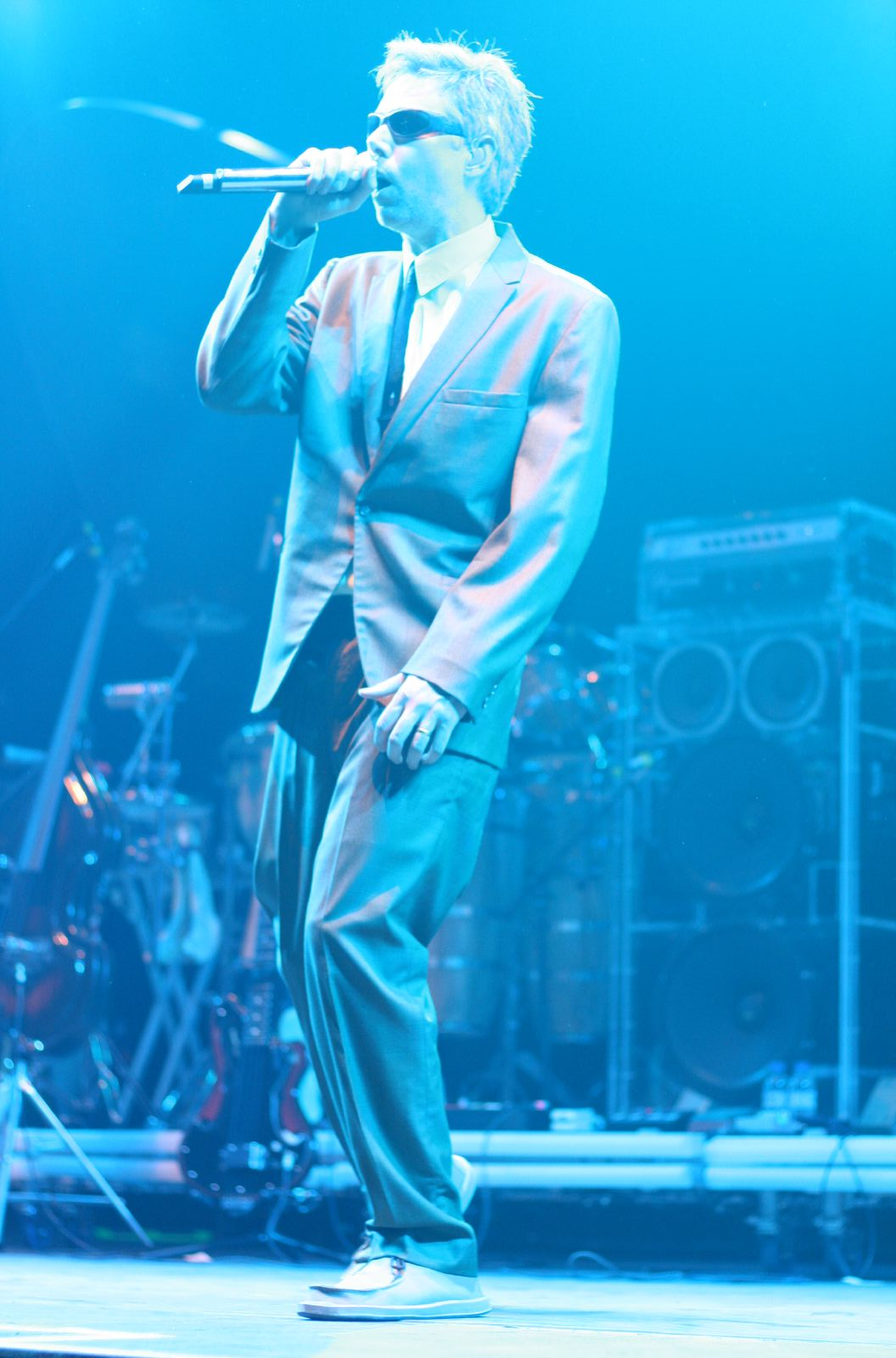 Photo of the singer, musician and director Adam Yauch